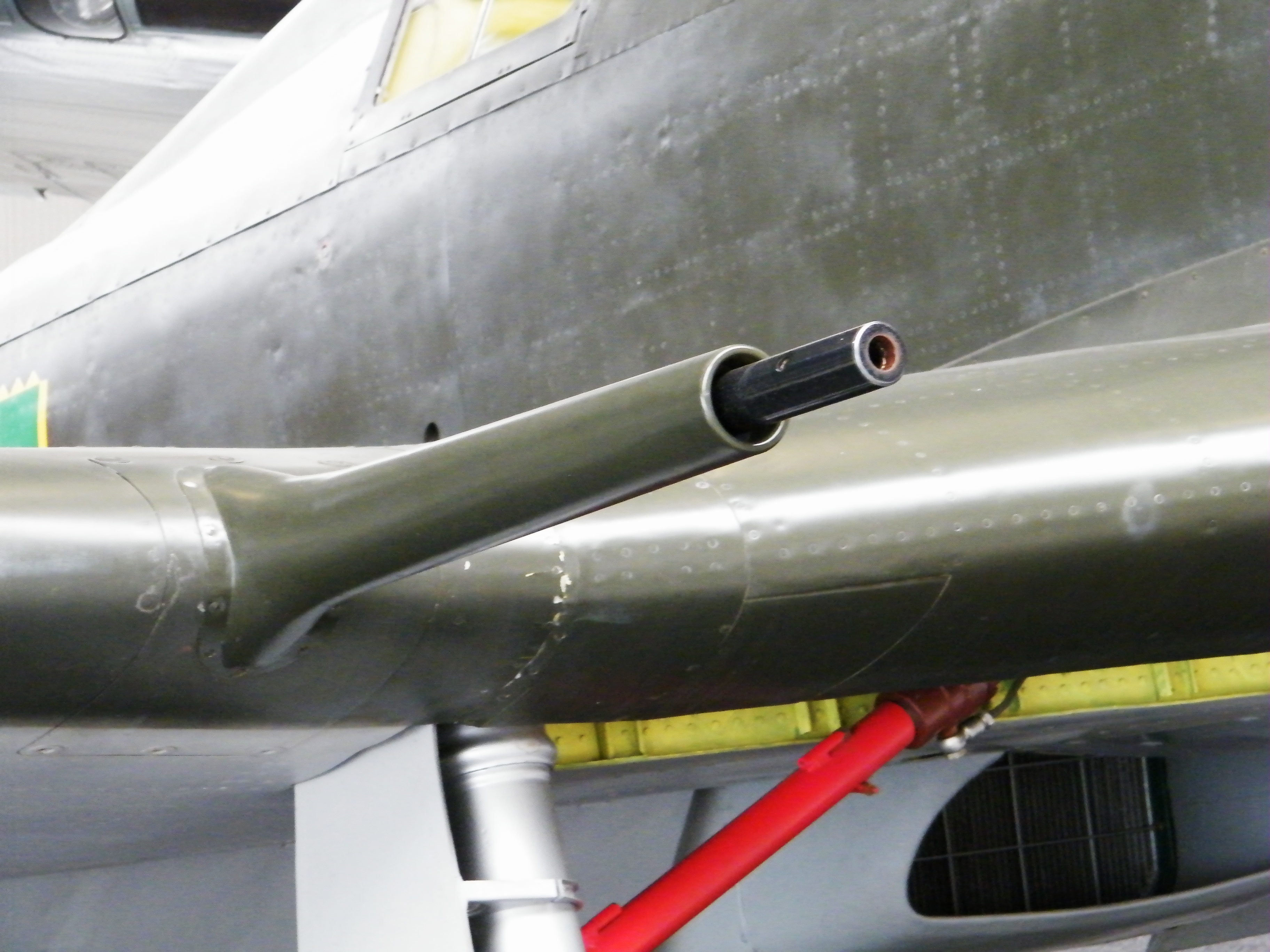 Fiat G.55 MG 151 cannon at the Italian Air Force Museum, Vigna di Valle in 2012